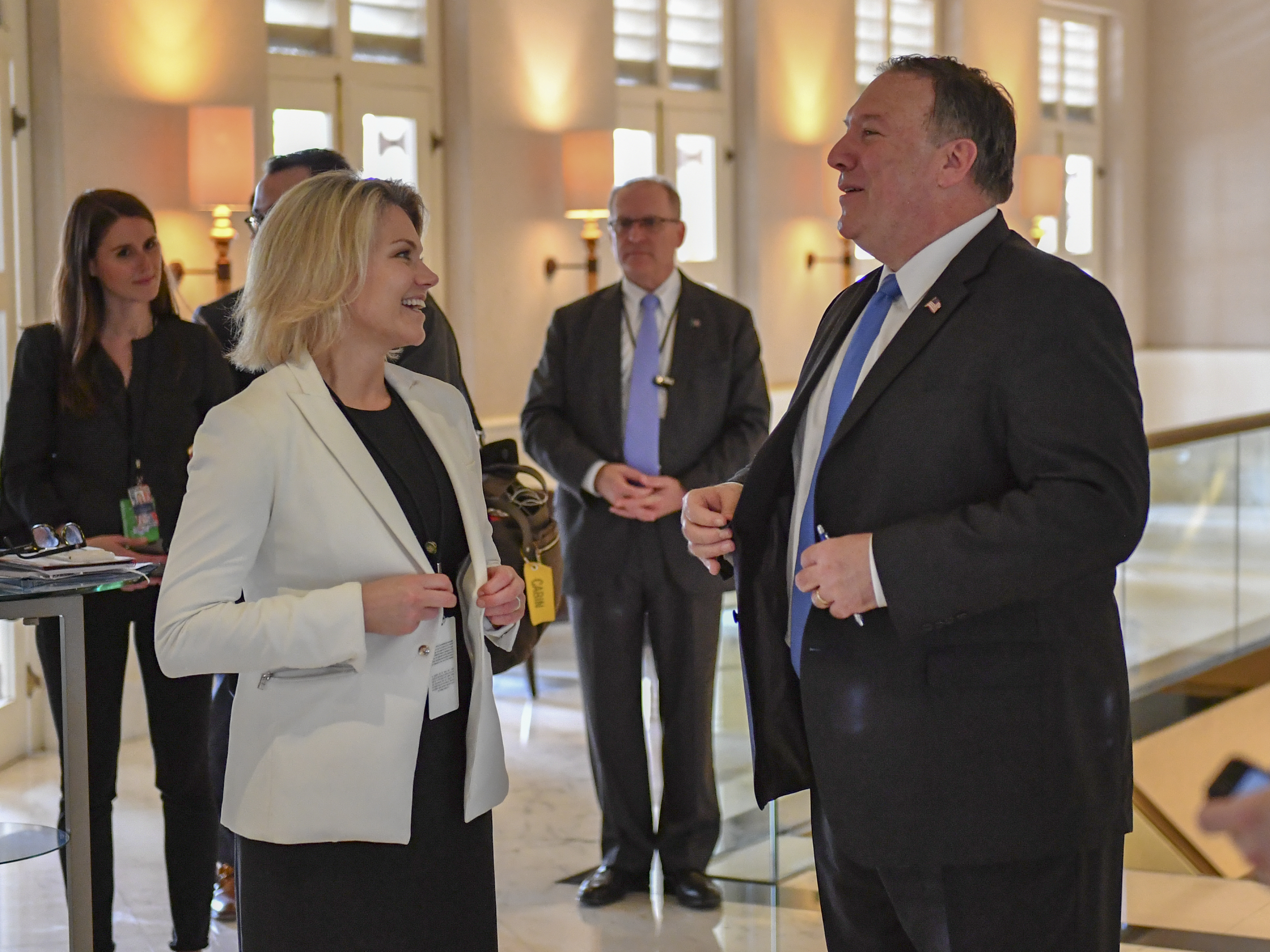 U.S. Secretary of State Mike Pompeo chats with Acting Under Secretary for Public Diplomacy and Public Affairs and Spokesperson Heather Nauert behind-the-scenes at the Singapore Summit in Singapore on June 12, 2018. [State Department photo/ Public Domain]